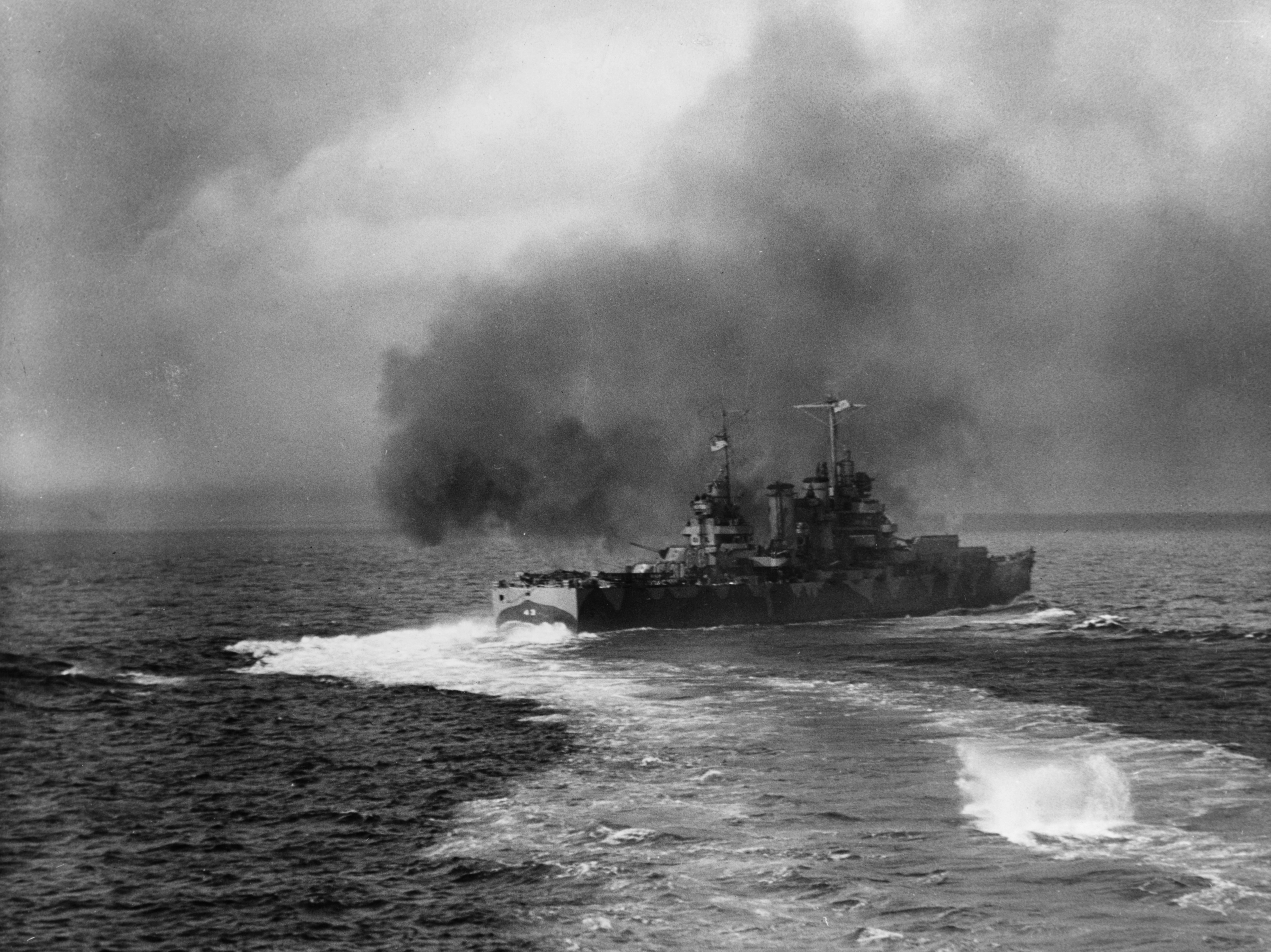 The U.S. Navy light cruiser USS Nashville (CL-43) bombarding Kiska Island, Aleutians (USA), on 8 August 1942. Note the unusual placement of her hull number on the stern.